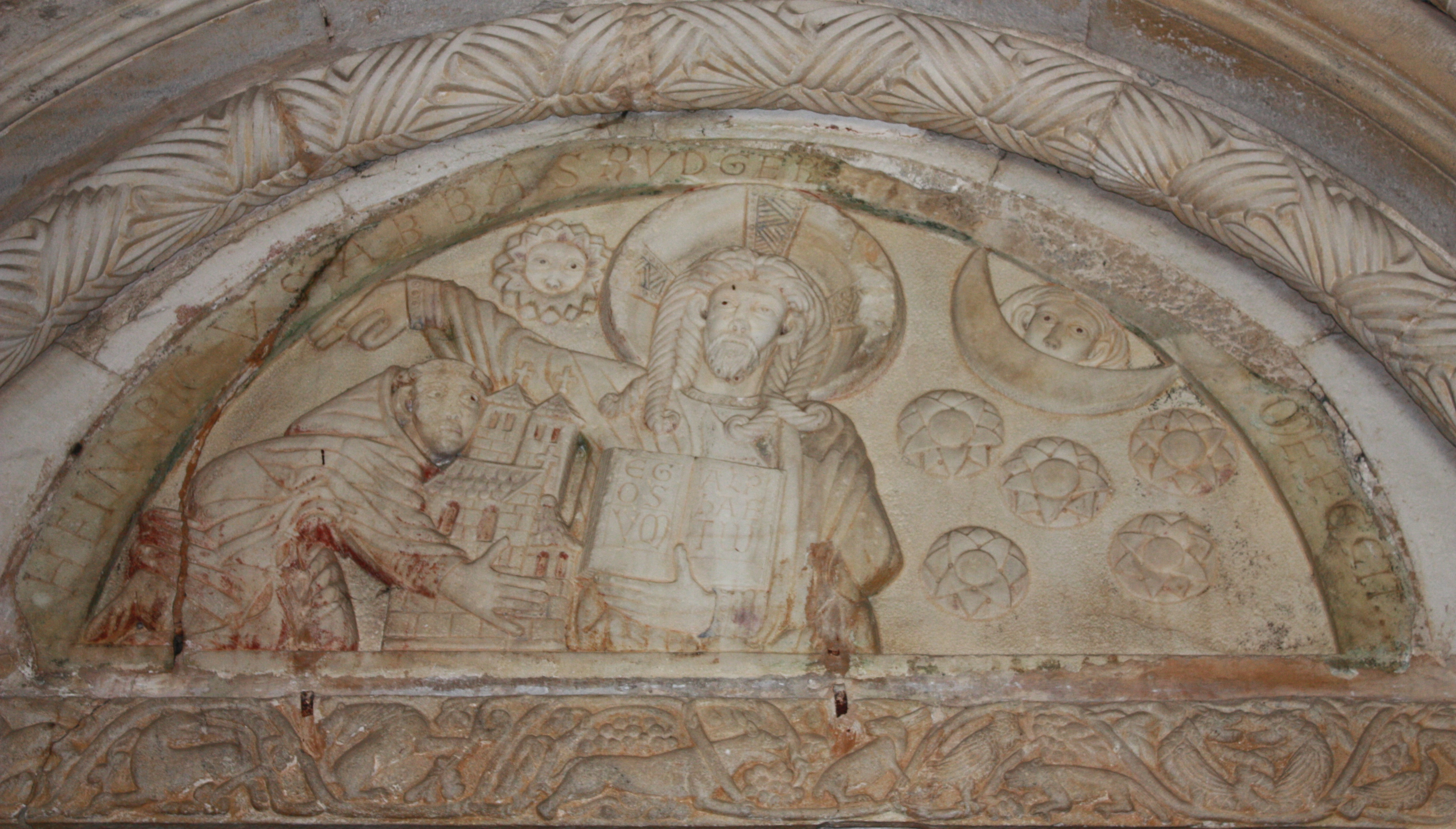 Cloister church : Westportal, detail Locality: Millstatt Community:Millstatt